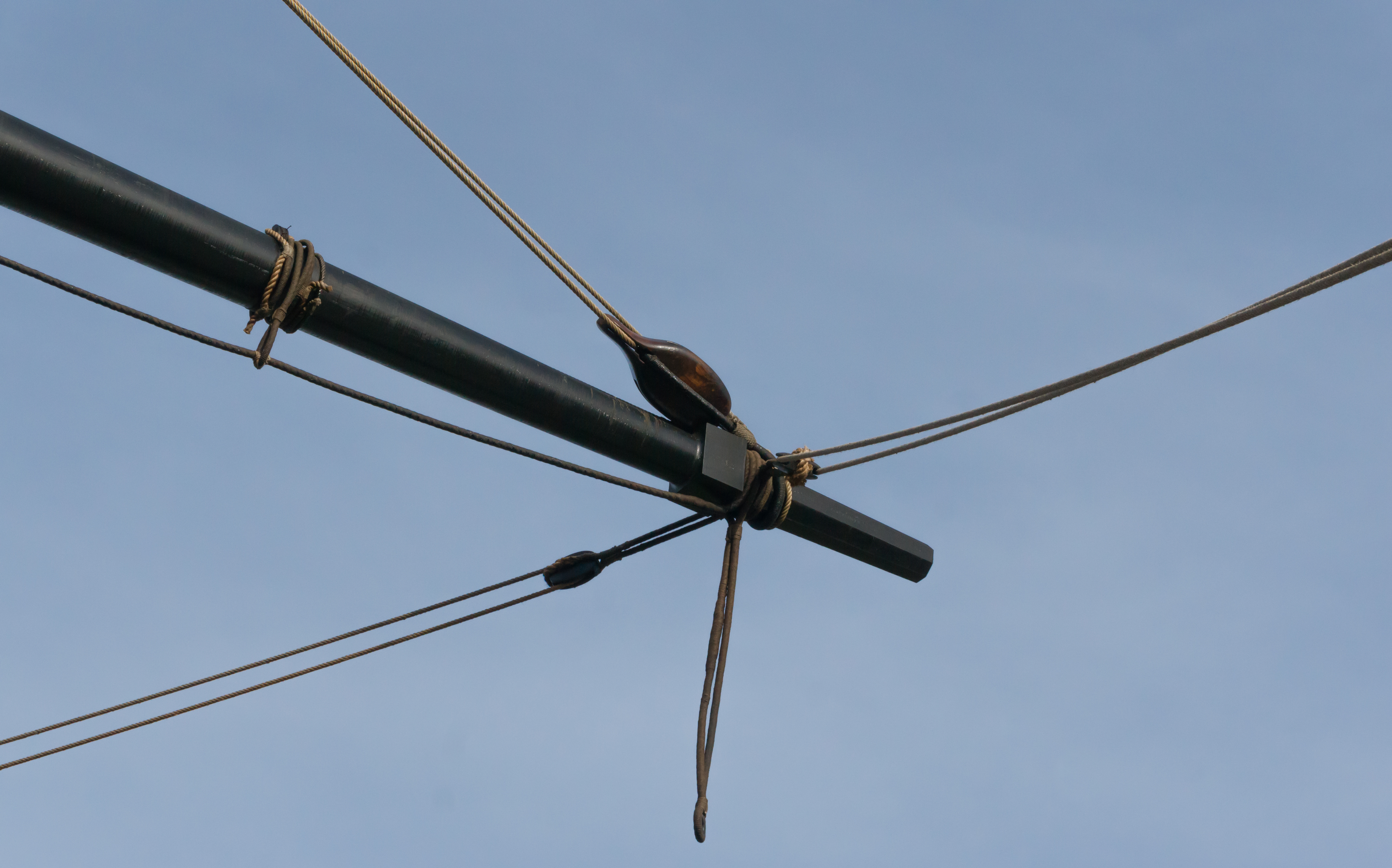 yard, pulley, rope of the ship L'Hermione, Rochefort sur Mer, Charente-Maritime, France.